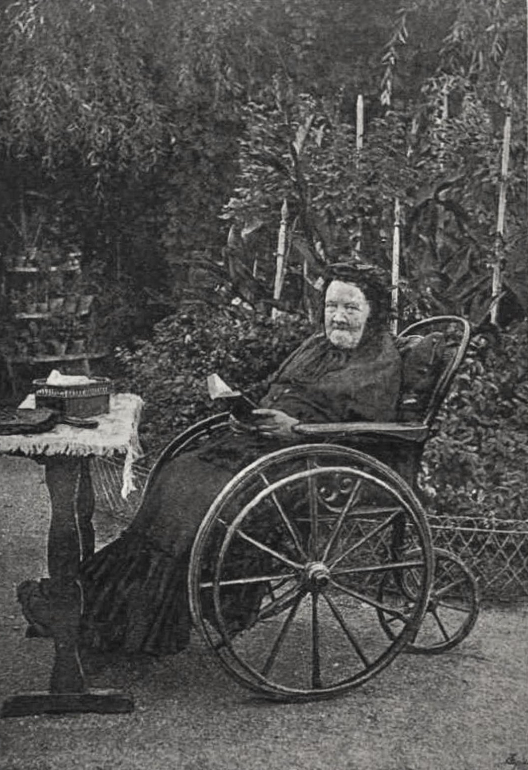 Franciska Münstermann